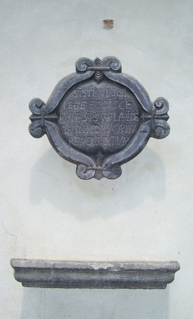 Monitum, Vilminore, Val di Scalve